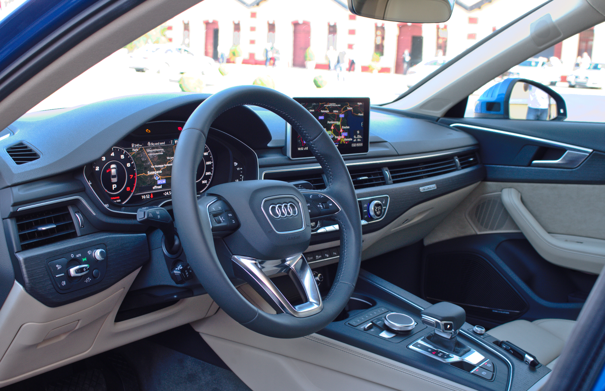 2015 Audi A4 B9 2.0 TFSI quattro 185 kW S line Cockpit